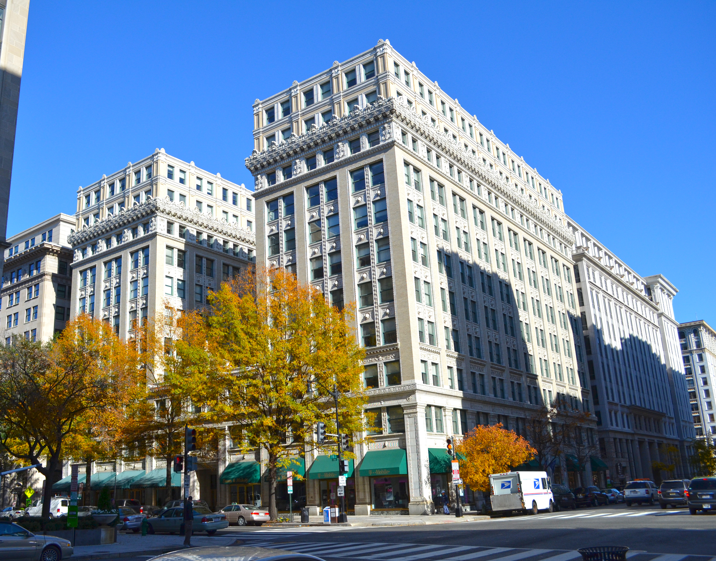 Looking northwest at the Southern Building (formerly known as the Southern Railway Building, and as the Southern Commercial Congress Building) at 850 F Street NW in Washington, D.C., in the United States. This Chicago school-style building is one of only a handful of structures in Washington, D.C., designed by the noted architect Daniel Burnham. It began construction in 1910, and was dedicated in 1911. Originally it had only nine stories. In 1986, the building underwent a complete renovation. Shalom Baranes Associates added two floors to the structure.